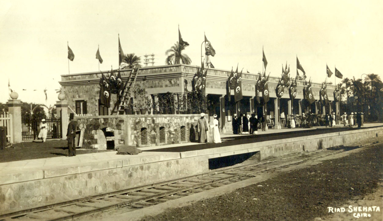 General view of the Aswan station